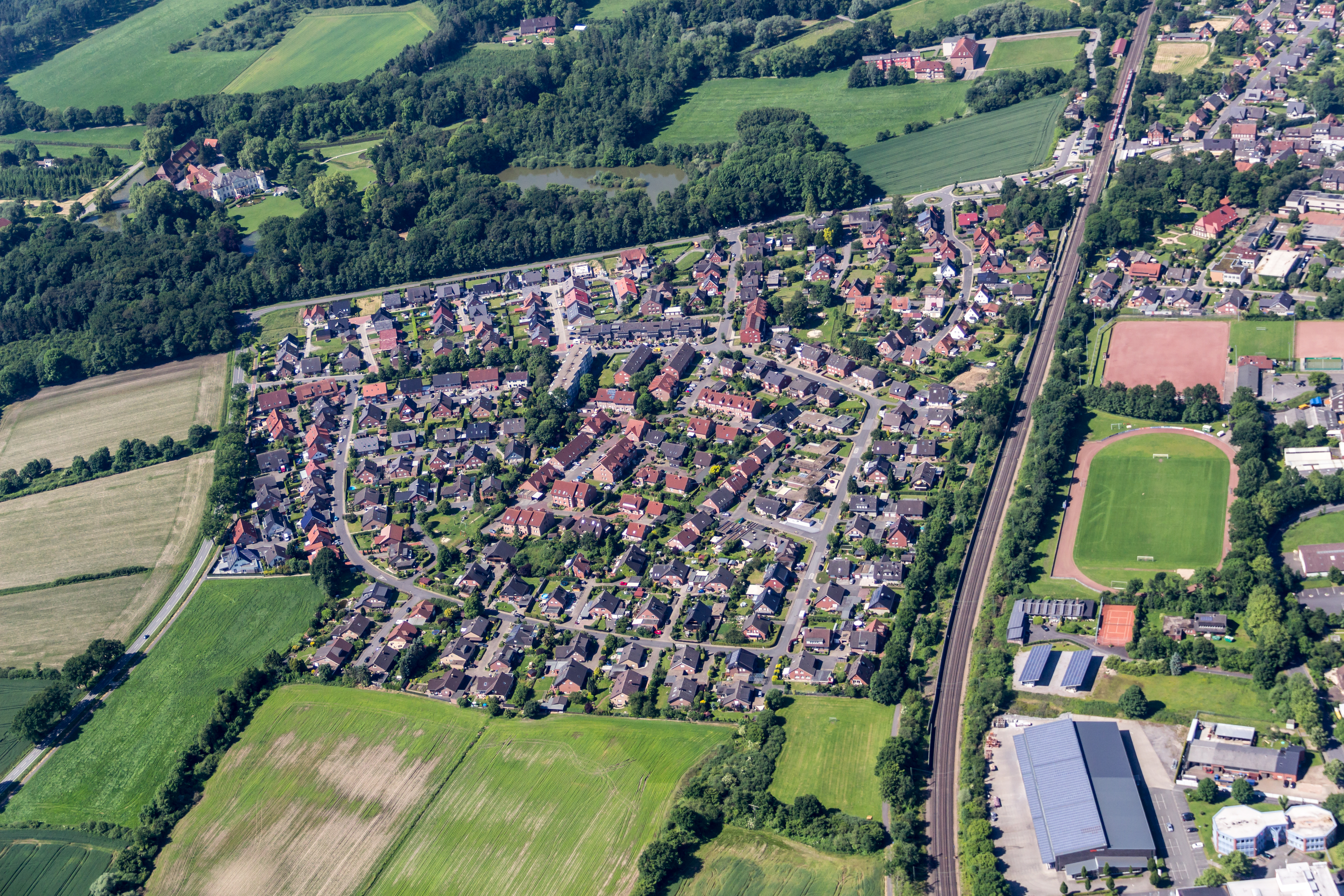 Residential area, Buldern, Dülmen, North Rhine-Westphalia, Germany